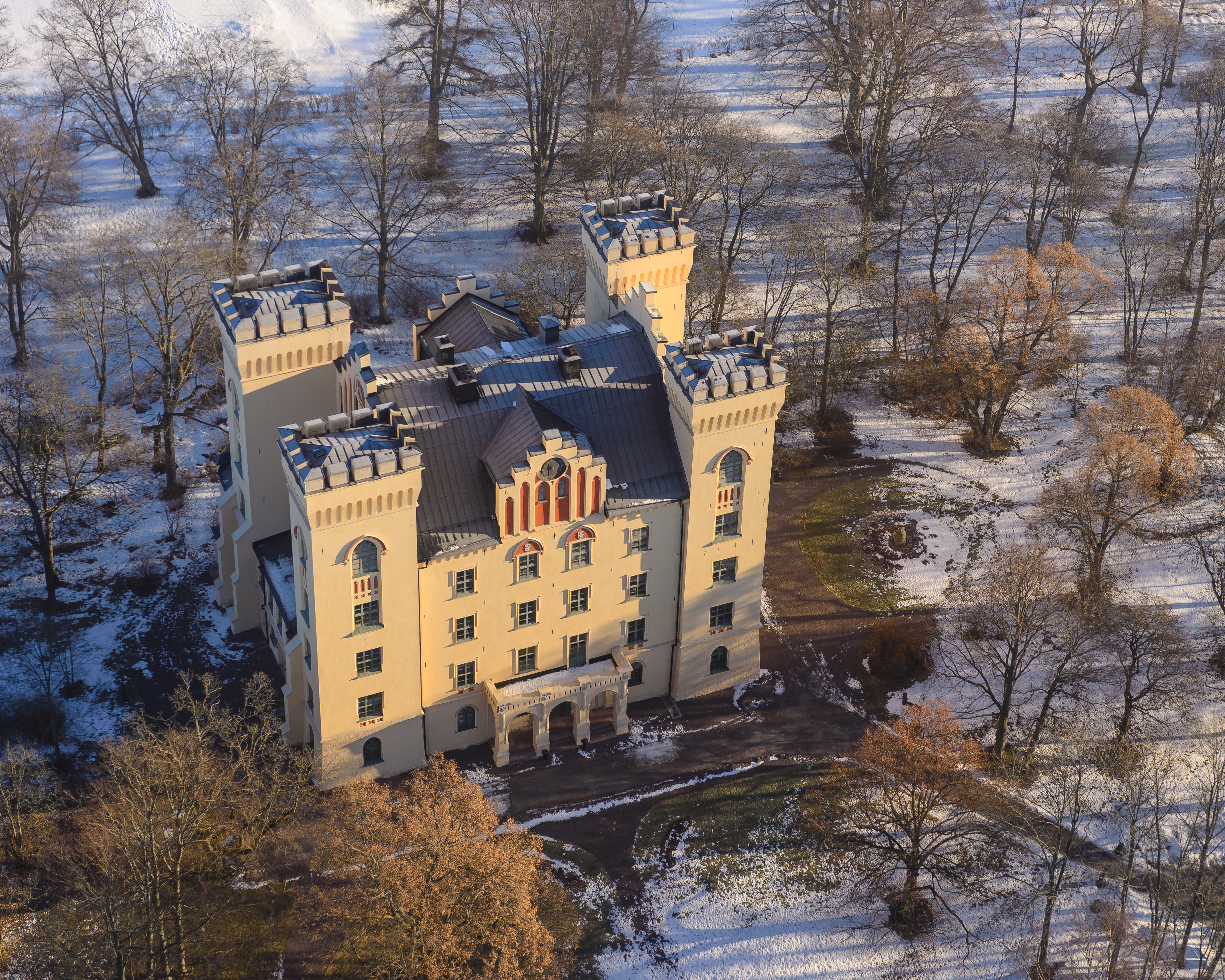 Bogesunds slott (palace). Built around 1640, rebuilt 1863-67.